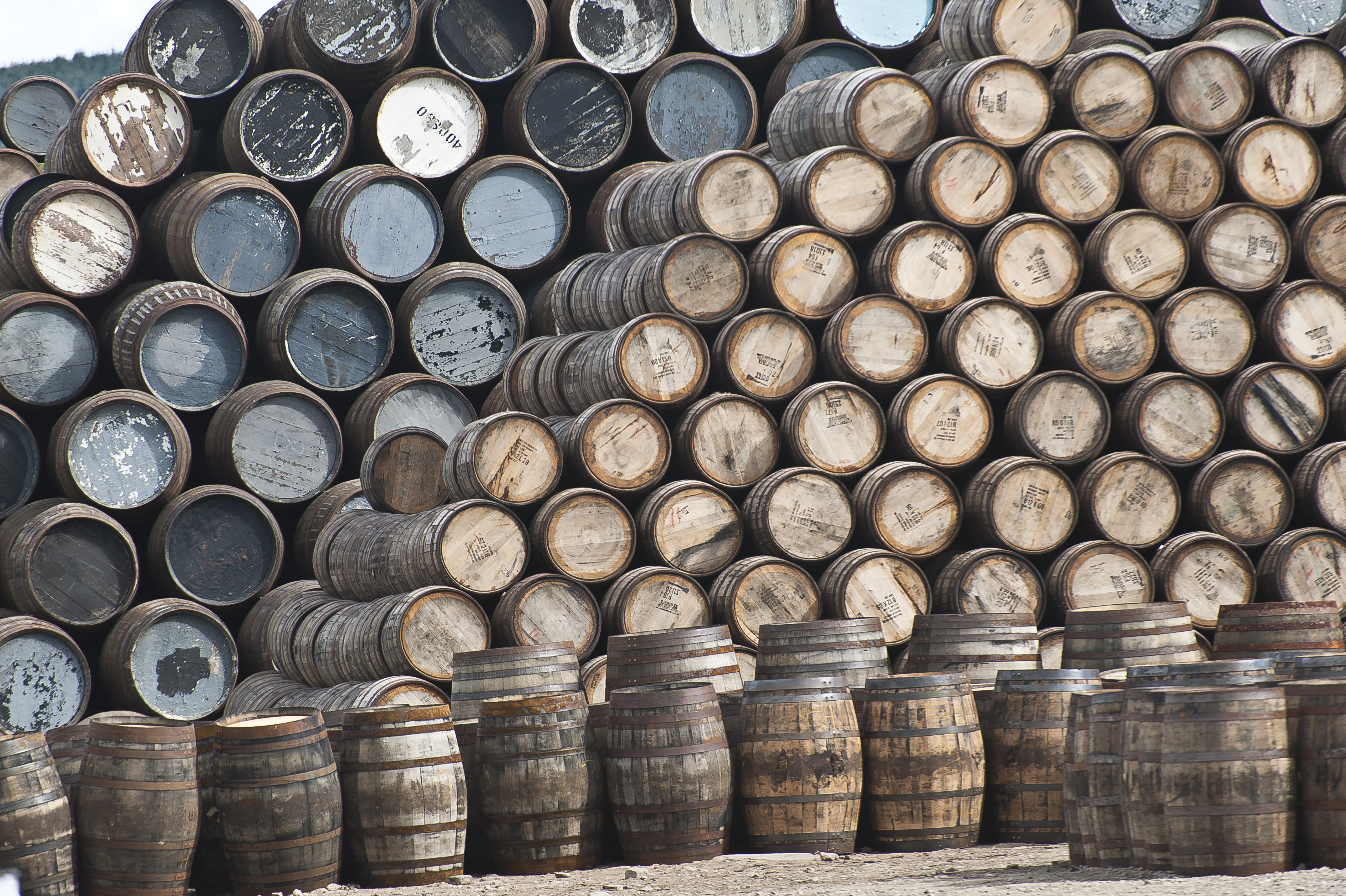 Cask storage, Speyside Cooperage, Aberlour, Schottland